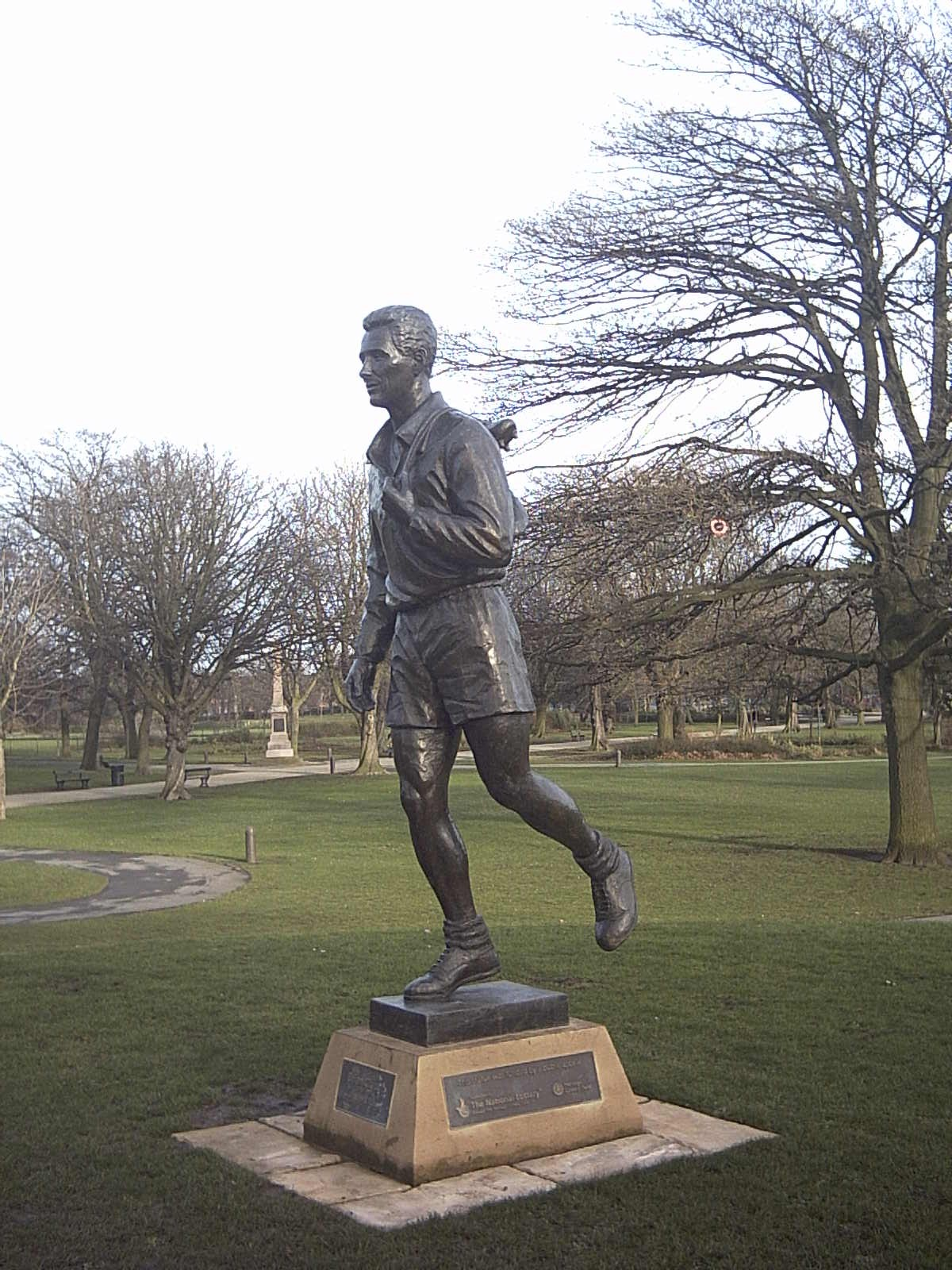 Brian Clough Statue in Albert Park, Middlesbrough. Taken by me - Neil Gray